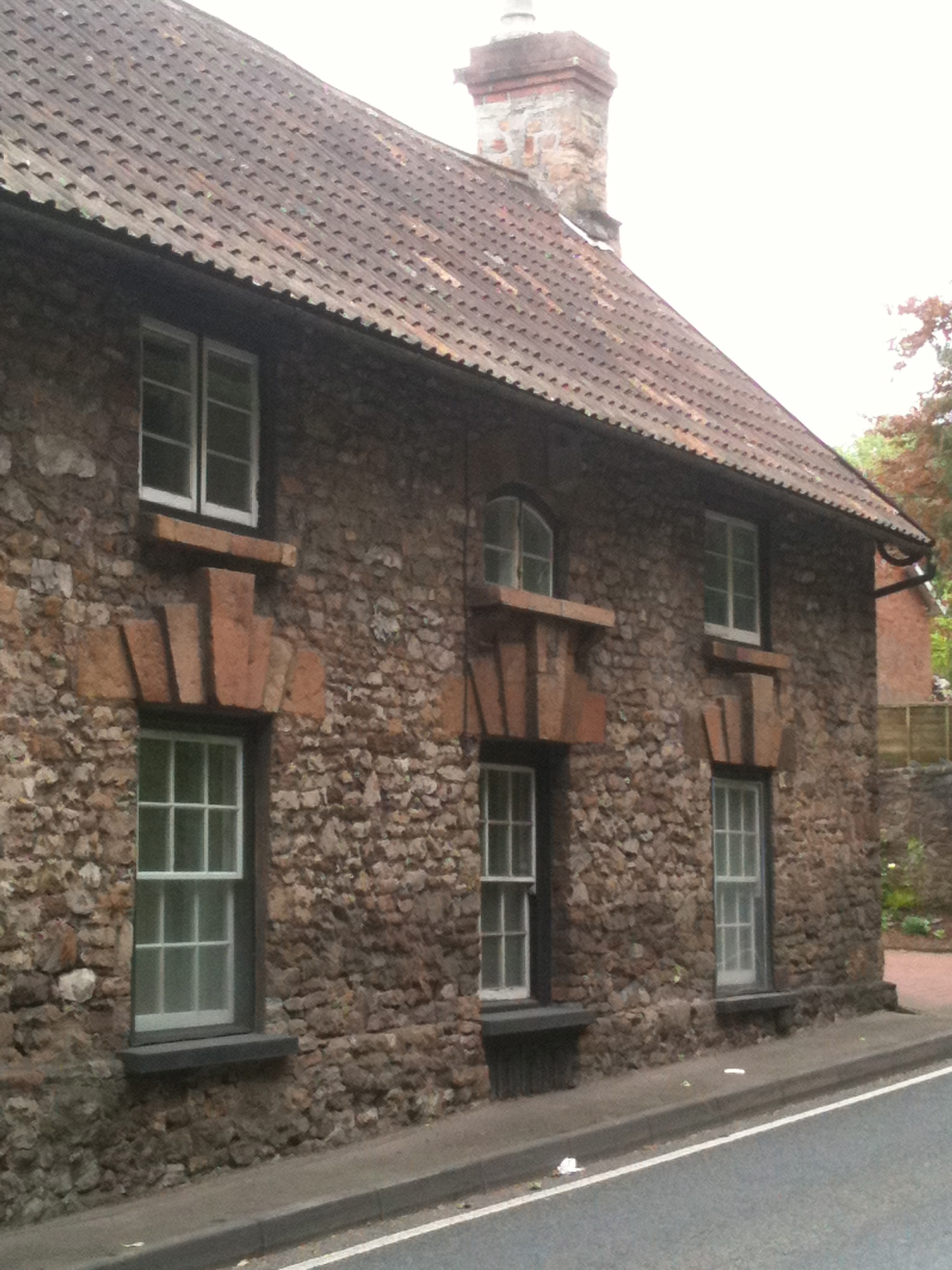 Former Blacksmith's Cottage attributed to the architect Sir John Vanbrugh